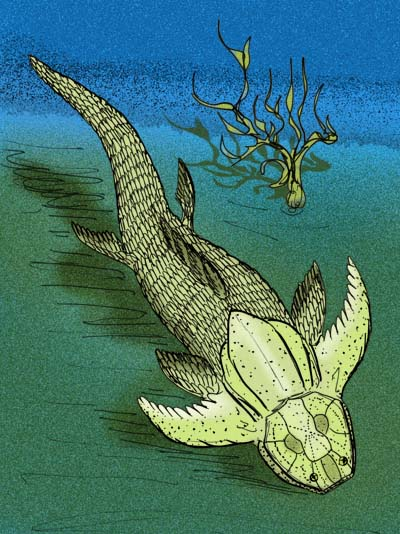 Reconstruction of the primitive arthrodire placoderm, Potangaspis parvoculatus, of Early to Middle Devonian China.